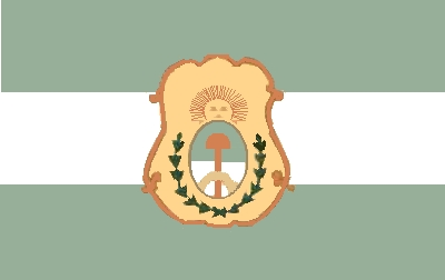 Flag adopted by the IV Division of the Army of the Andes, also called "flag of Cabot" due to the troops were leadered by colonel Juan Manuel Cabot. After Cabot's death, his daughter Josefa gave the flag to Bartolomé Mitre in 1890. The emblem would be donated to the National Historic Museum of Argentina where remained until 2012, when the flag was returned to the Government of San Juan Province.[1]